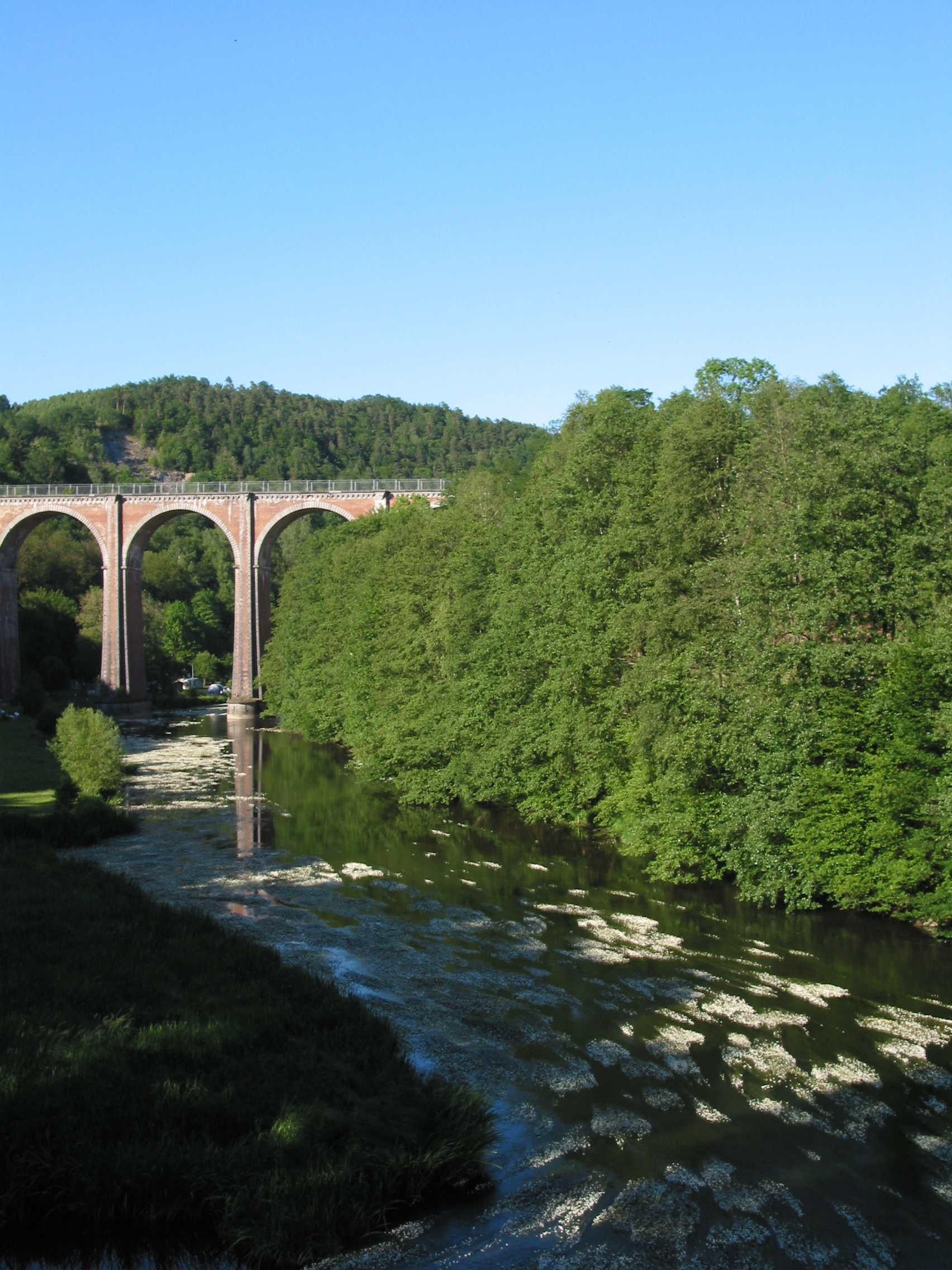 Herbeumont (Belgium), the viaduct on the Semois river.